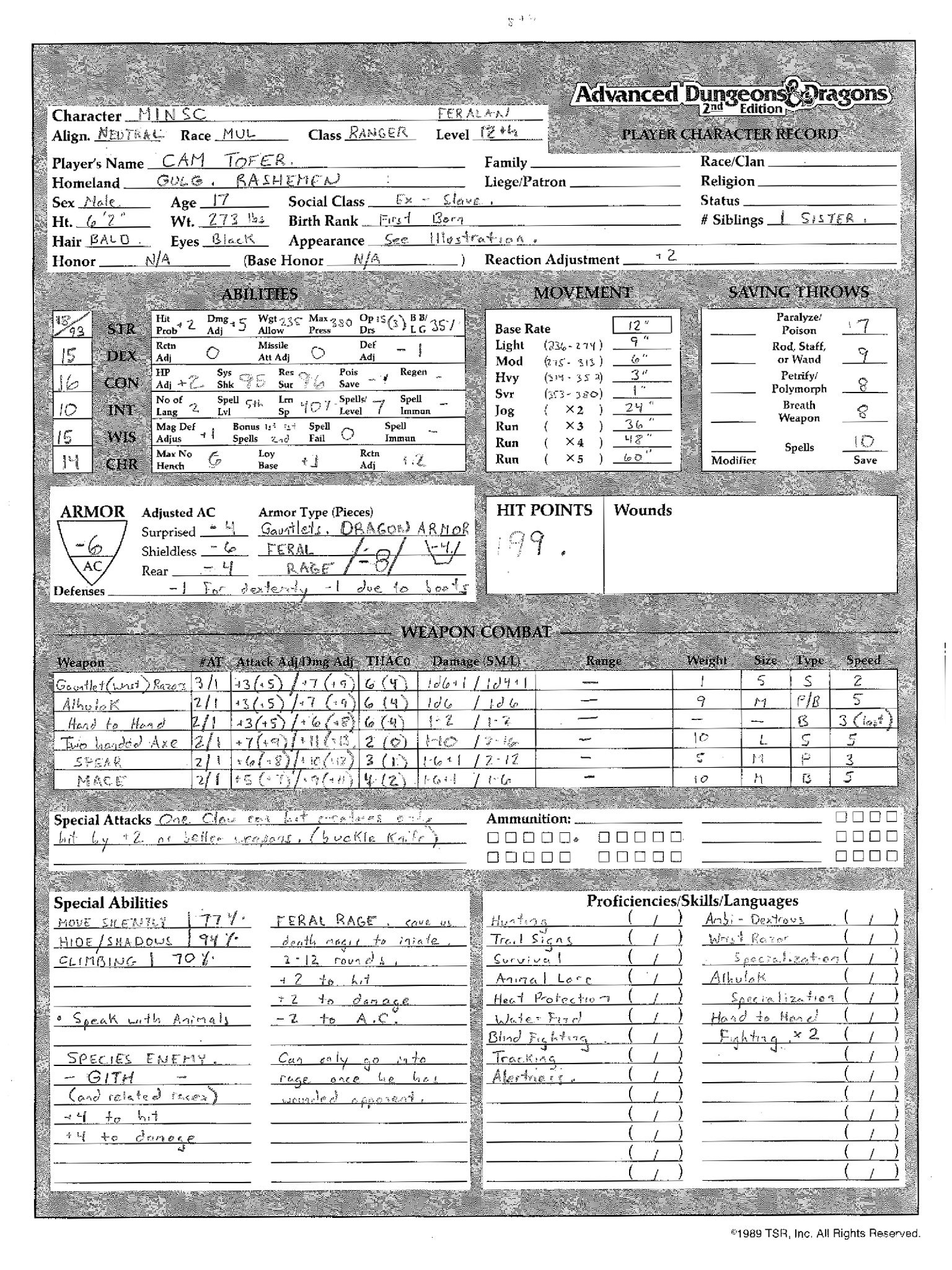 Minsc Character Sheet from Cameron Tofer pen&paper game. Later Minsc became a character of famed Baldur's Gate CRPG series